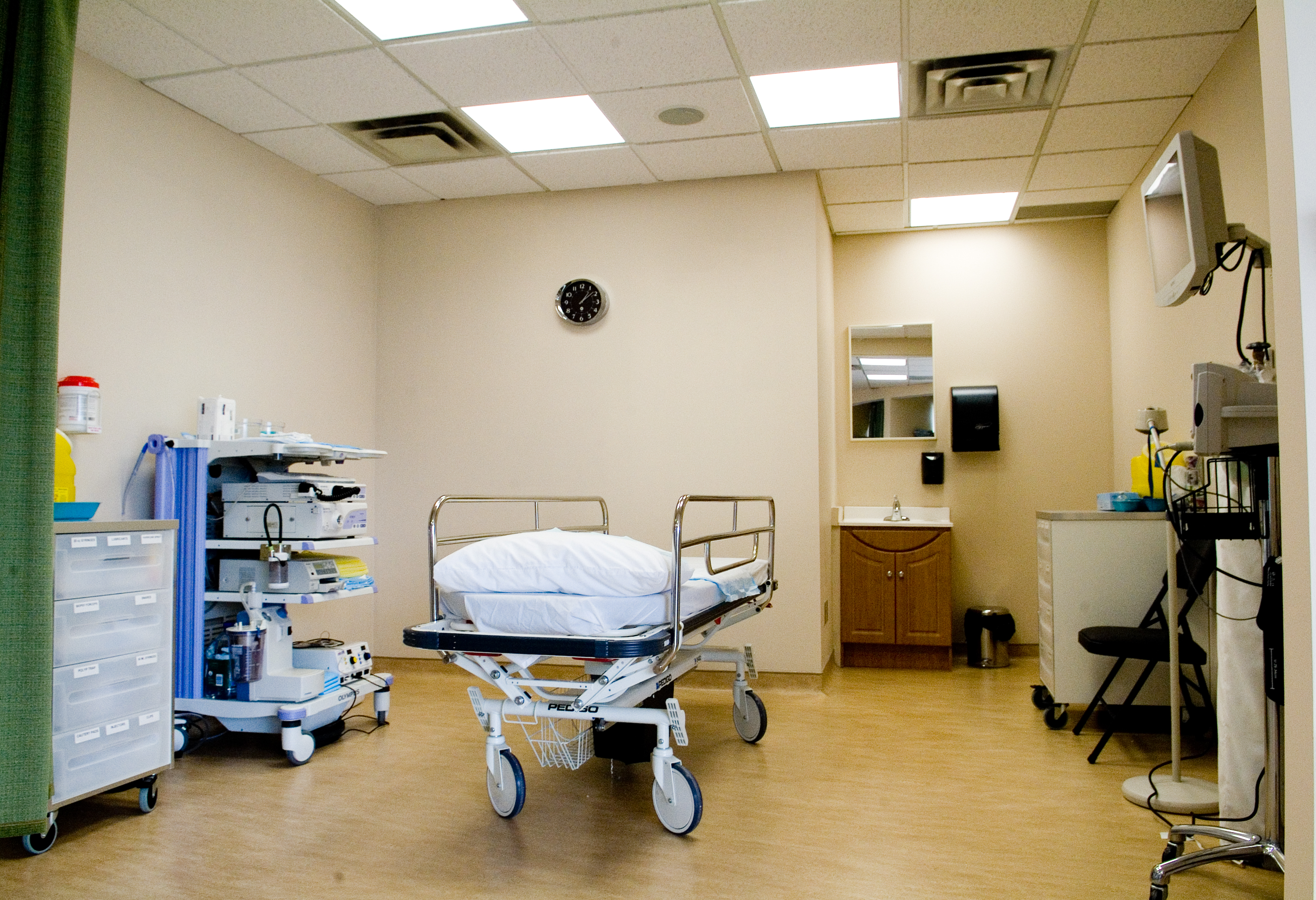 Endoscopy tower located in an in-patient endoscopy unit